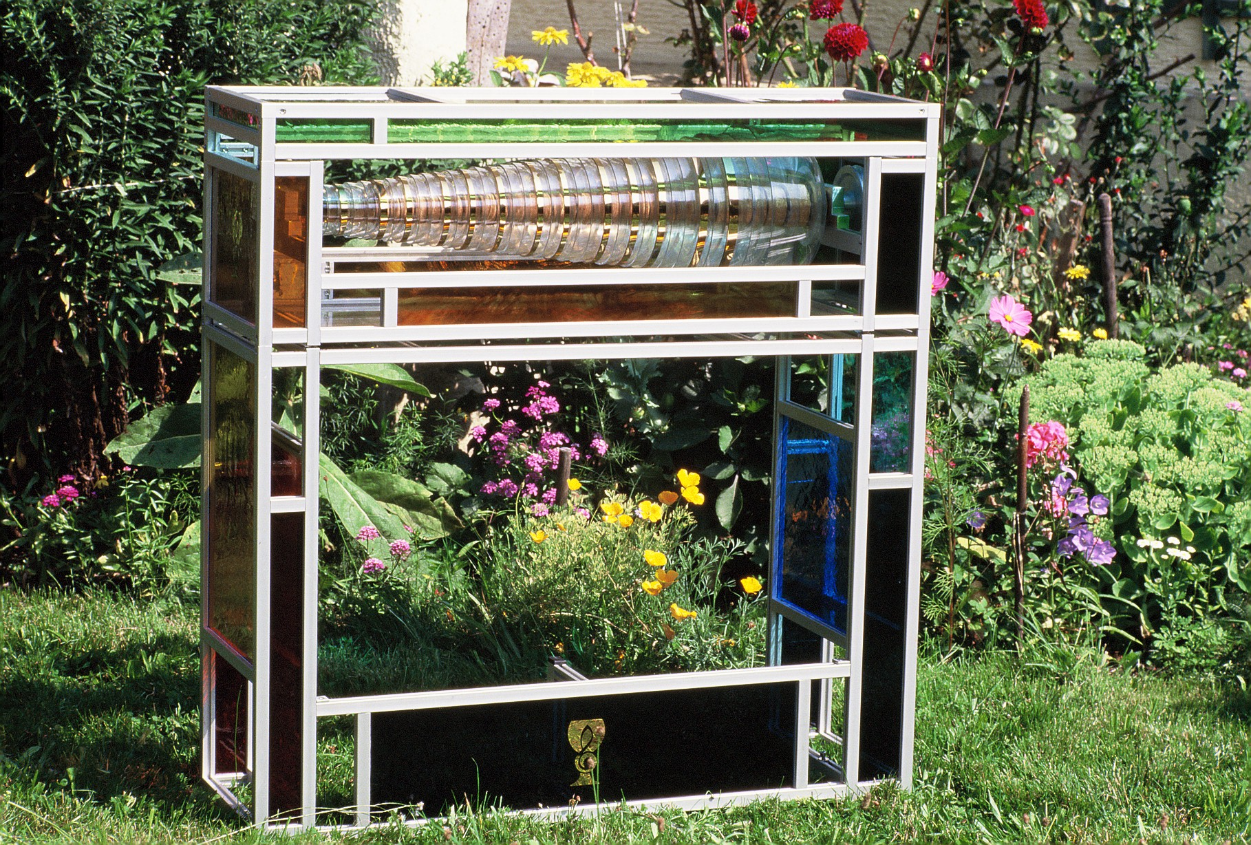 Glassharmonica, sounding glass by Sascha Reckert, stand by Martin Hilmer, finished in 2006